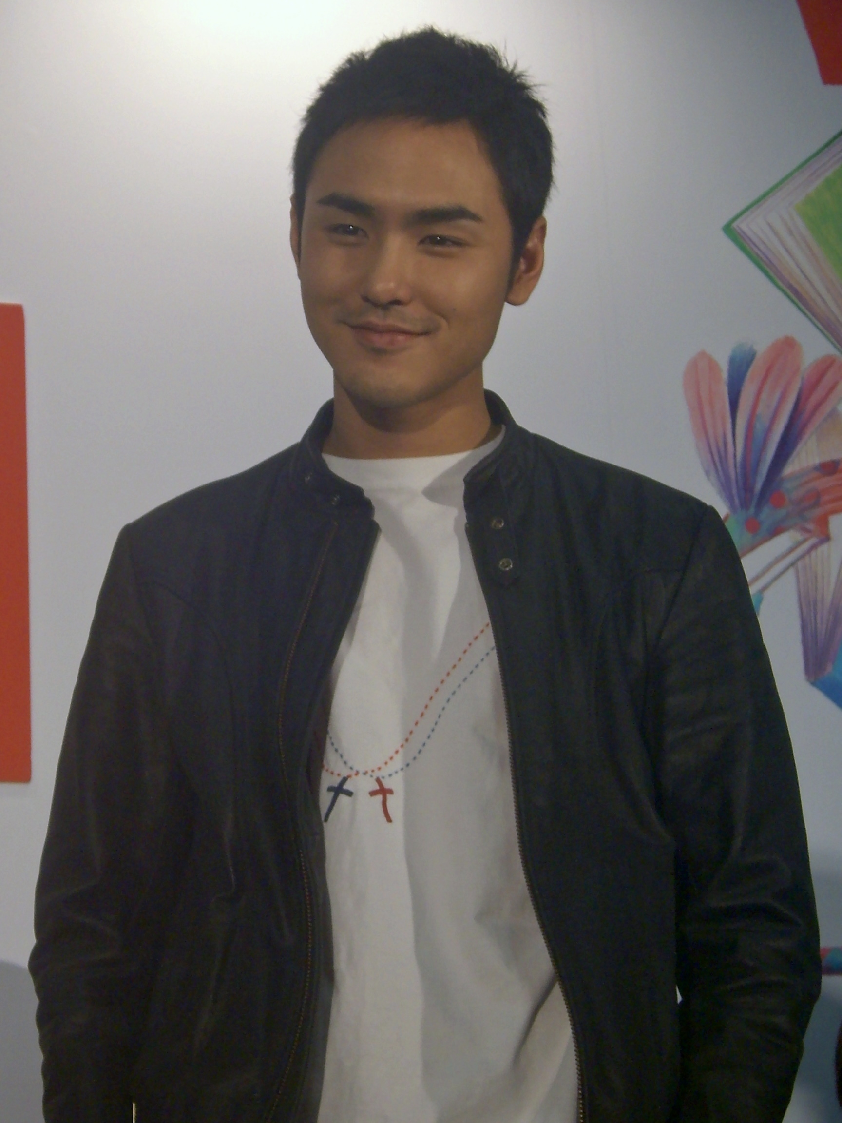 2010 Taipei International Book Exhibition: Ethan Ruan in "Monga" Photobook Event. Bân-lâm-gú: 2010-nî Tâi-pak Kok-tsè Tsu-tián, Ńg King-thian tī Báng-kah tshiam-tsu-huē. 2010年臺北國際書展，阮經天佇《艋舺》簽書會。